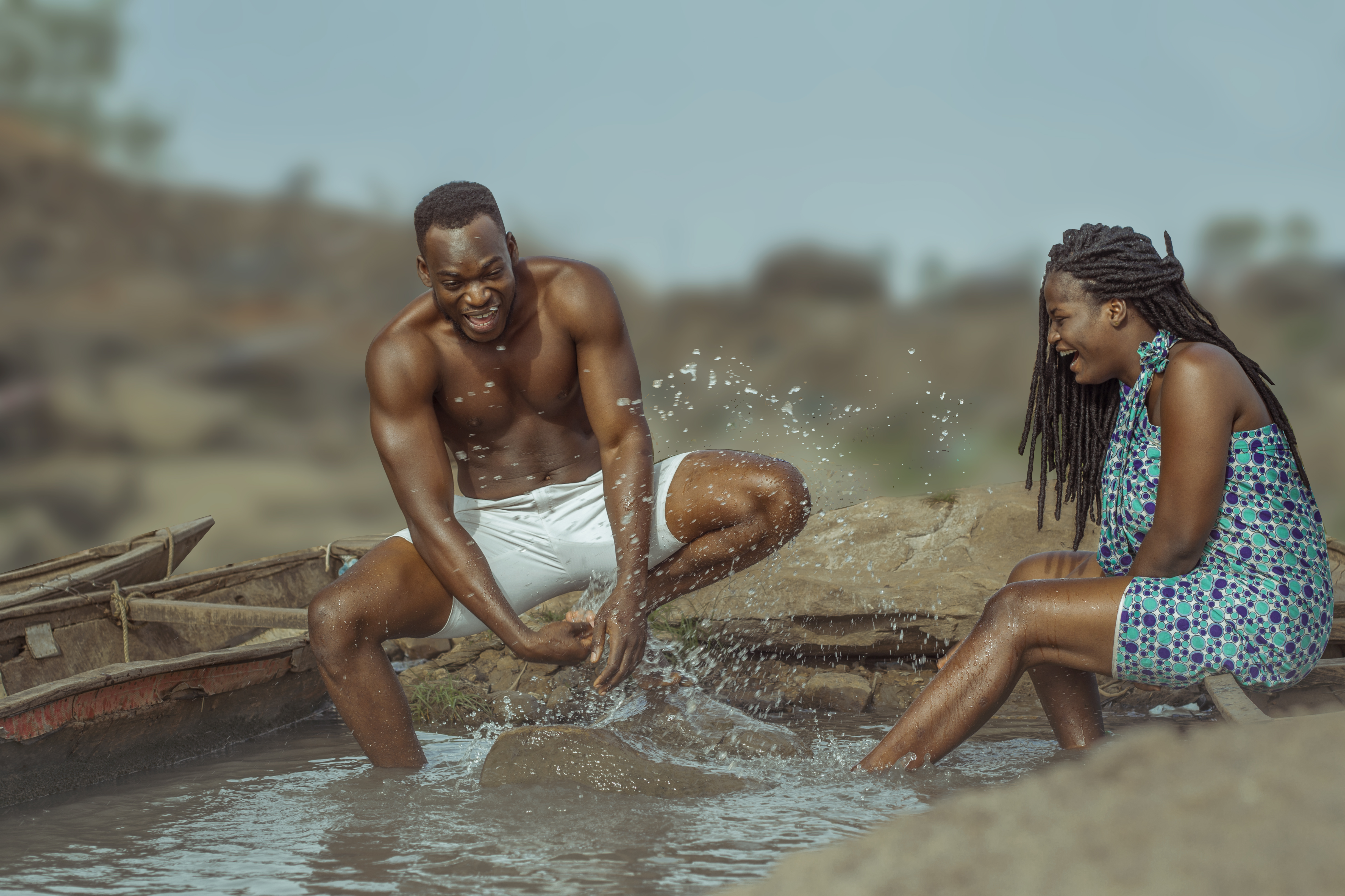 Two lovers playing with water splash by the River Benue. This is an image with the theme "Play" from: Nigeria